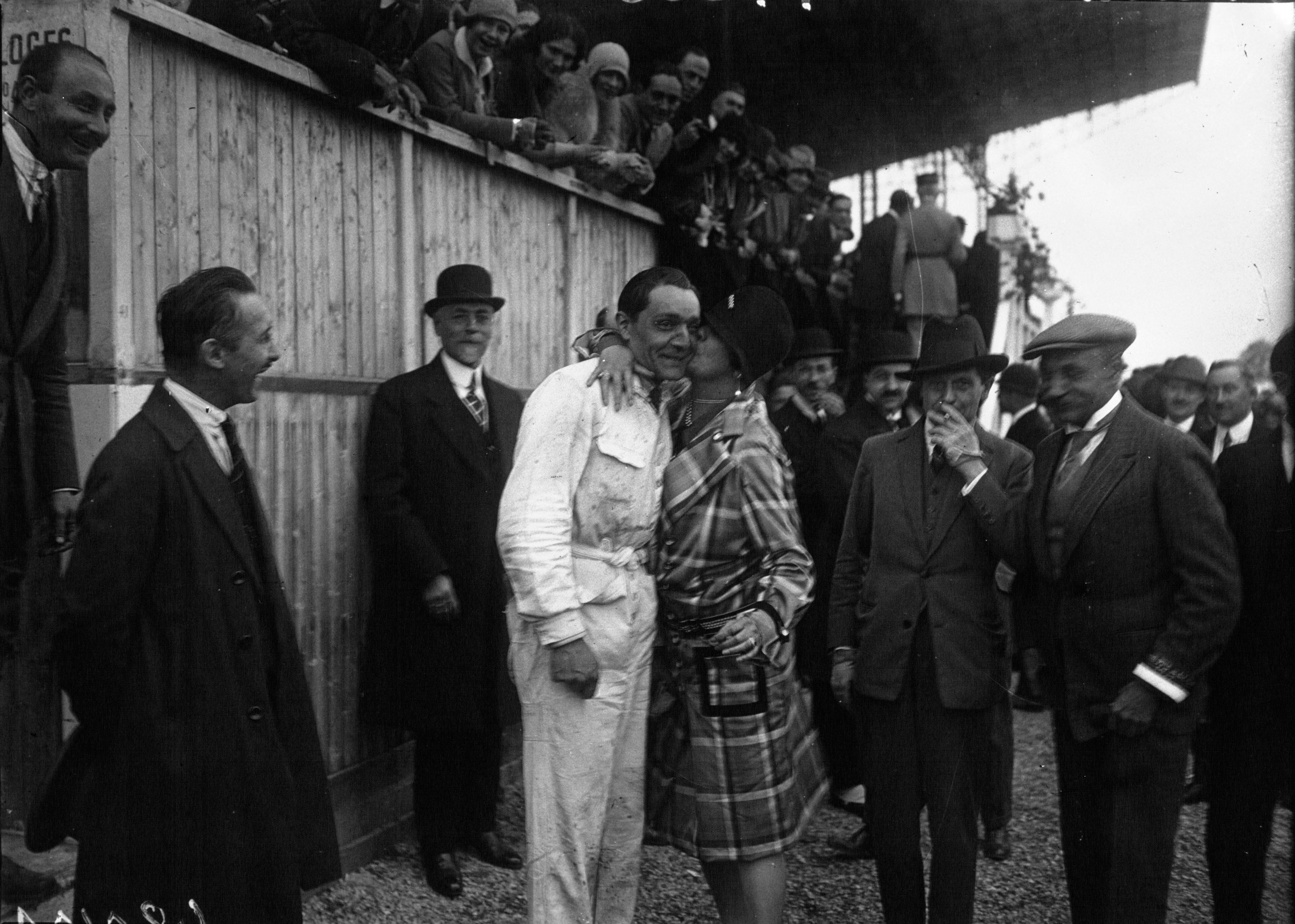 Robert Benoist at the 1927 French Grand Prix